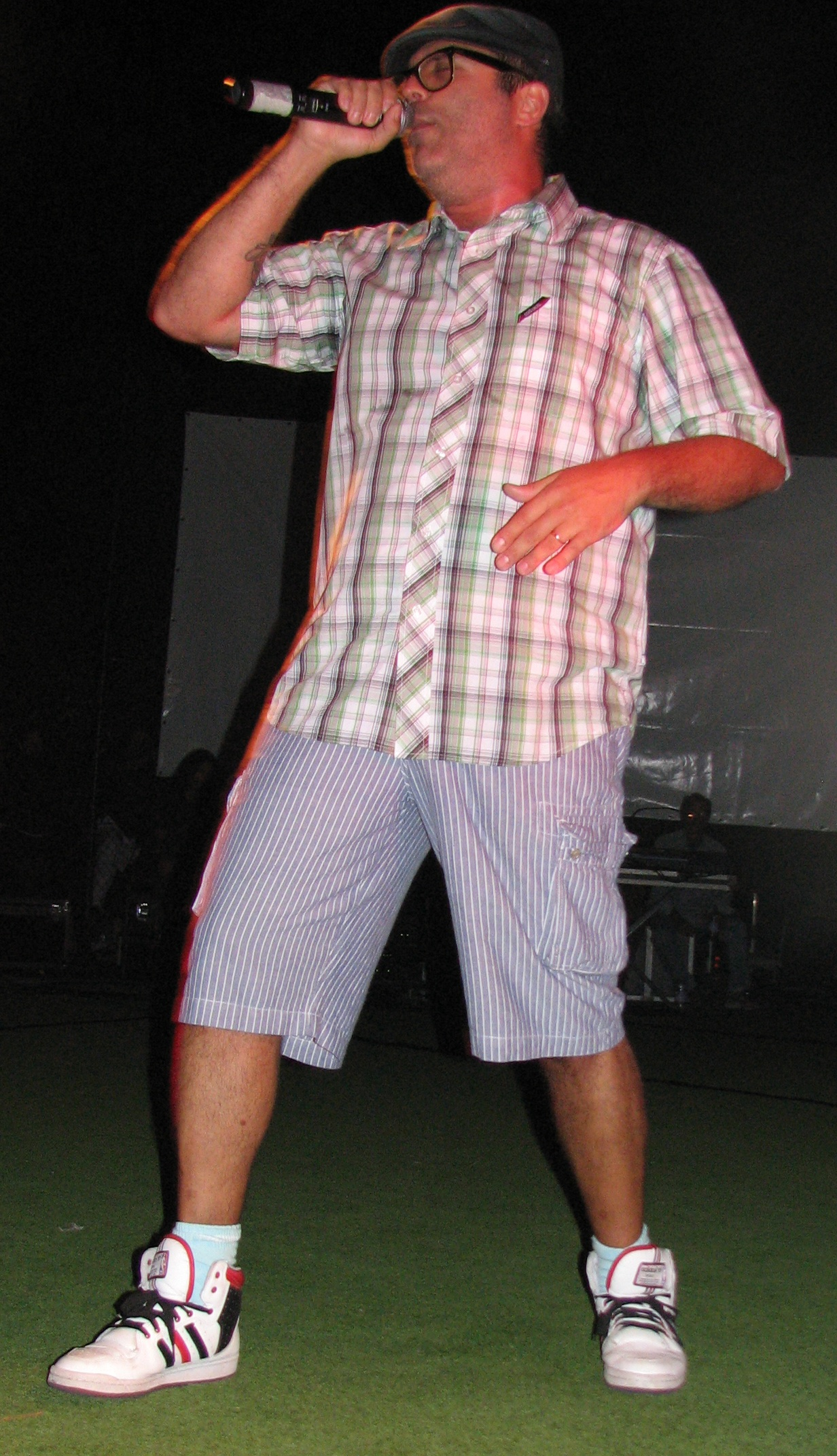 Frankie HI-NRG MC, Italian rapper singing in Alghero